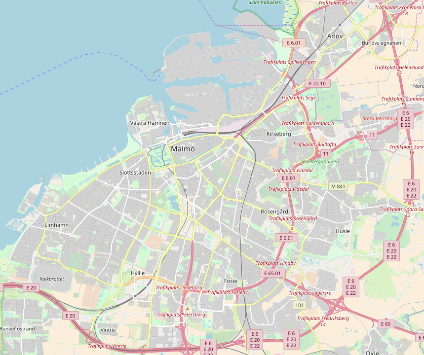 OpenStreetMap section showing Malmø, Sweden. Generated on 2018-03-20 in scale 1:10000 with Swedish street names shown. URL